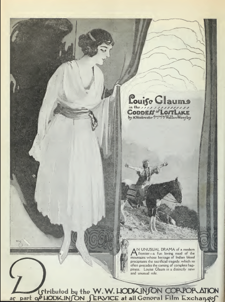 Advertisement for the American drama The Goddess of Lost Lake (1918) with Louise Glaum, directed by Wallace Worsley.